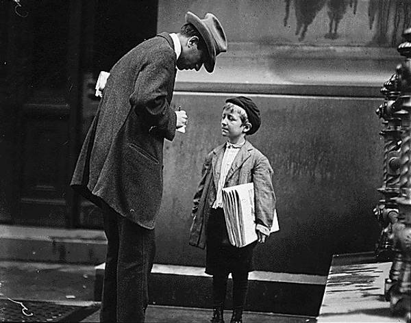 Boy selling newspapers by Lewis Hine (1874-1940)